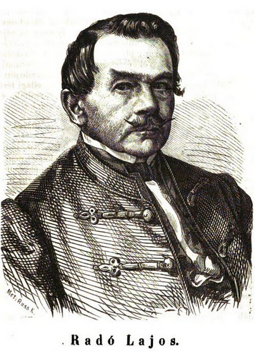 Portrait of Radó Lajos